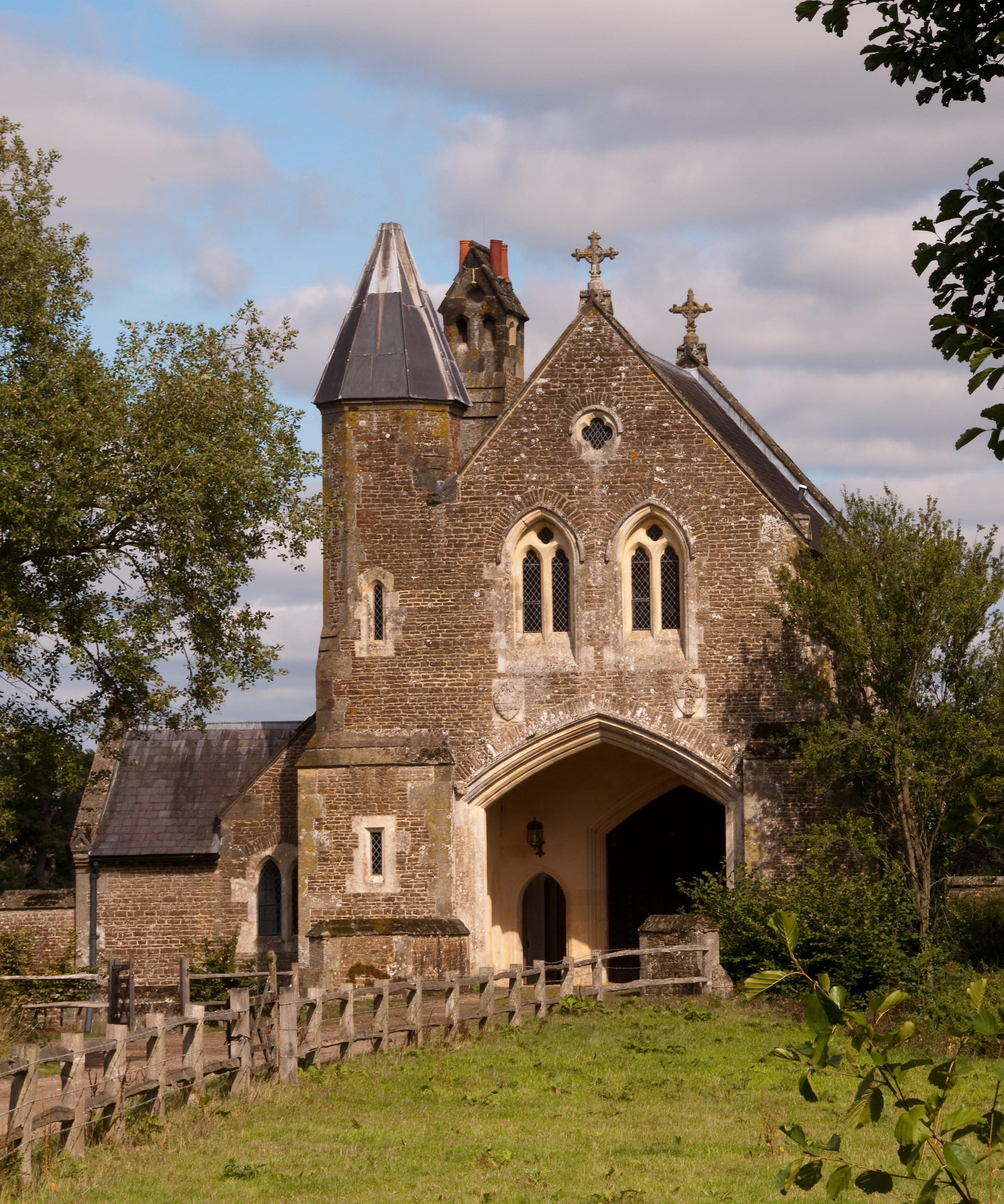 Oxenford Gate Lodge seen from the gateway off the B3001 road, to the Drive leading to Peper Harow House. Looking Northwest.